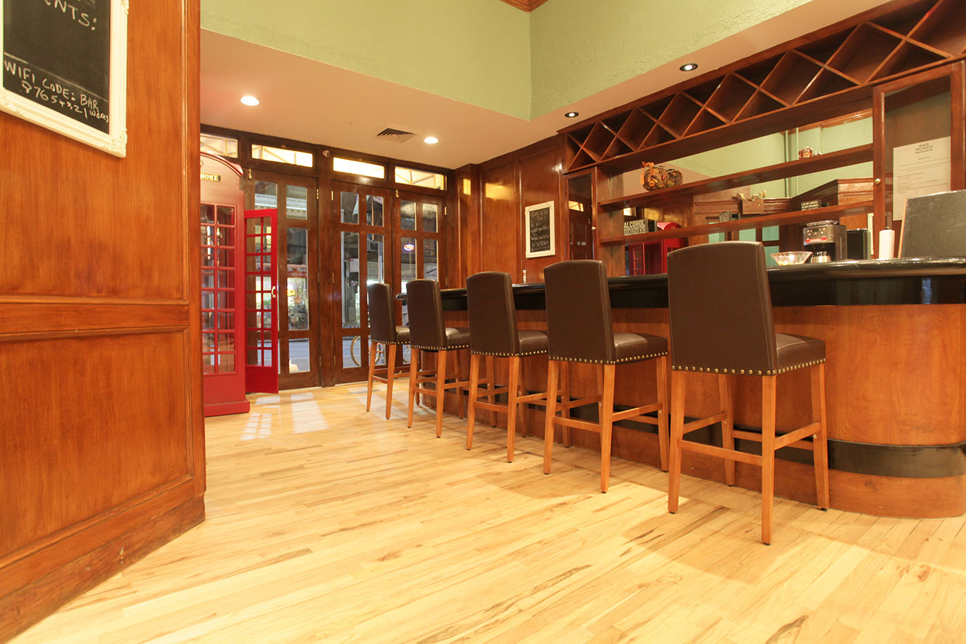 Barworks 47W 39TH St, New York view